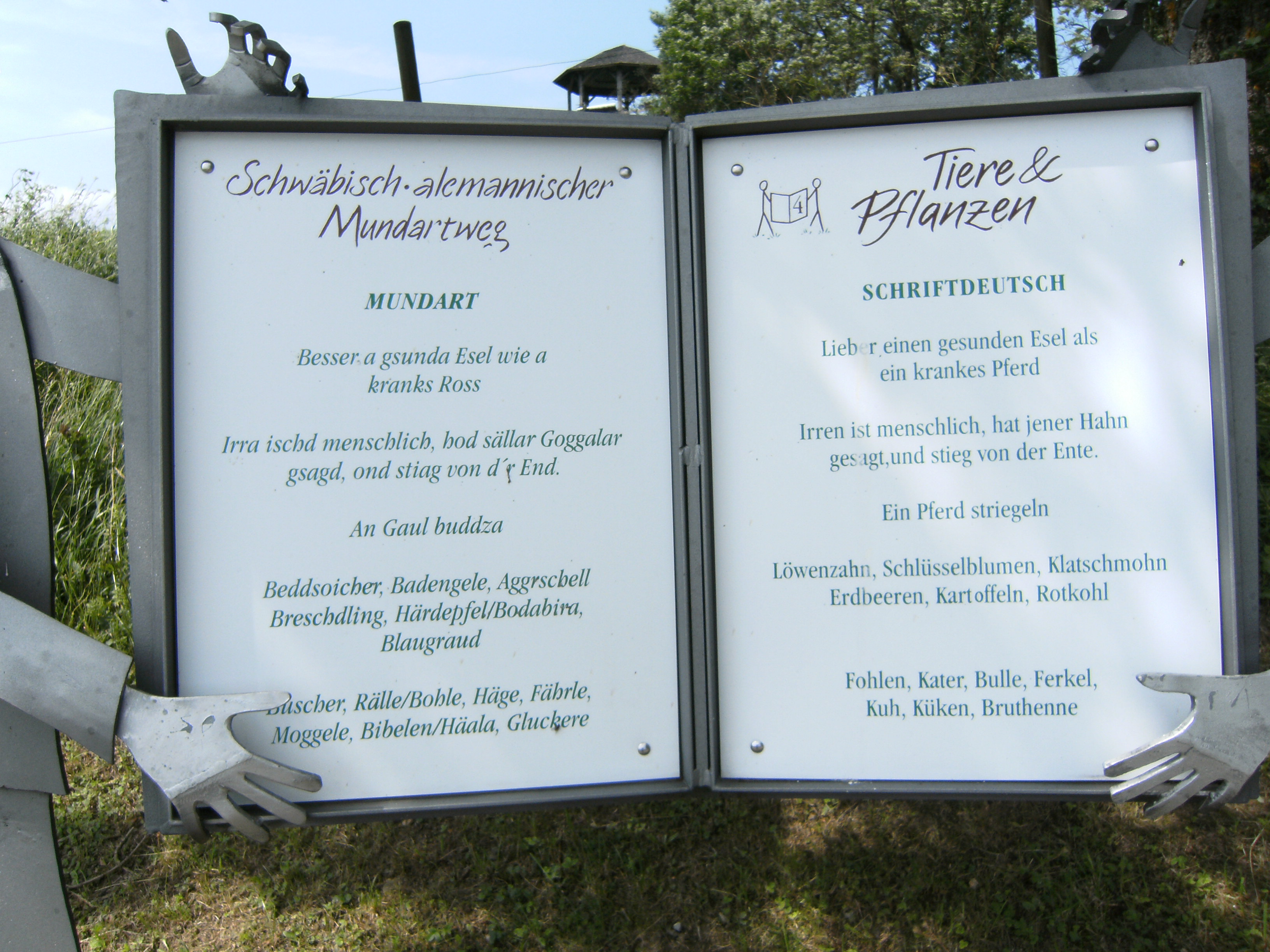 Path of Swuabian-alemannic dialects at Höchsten hill Germany: animals.